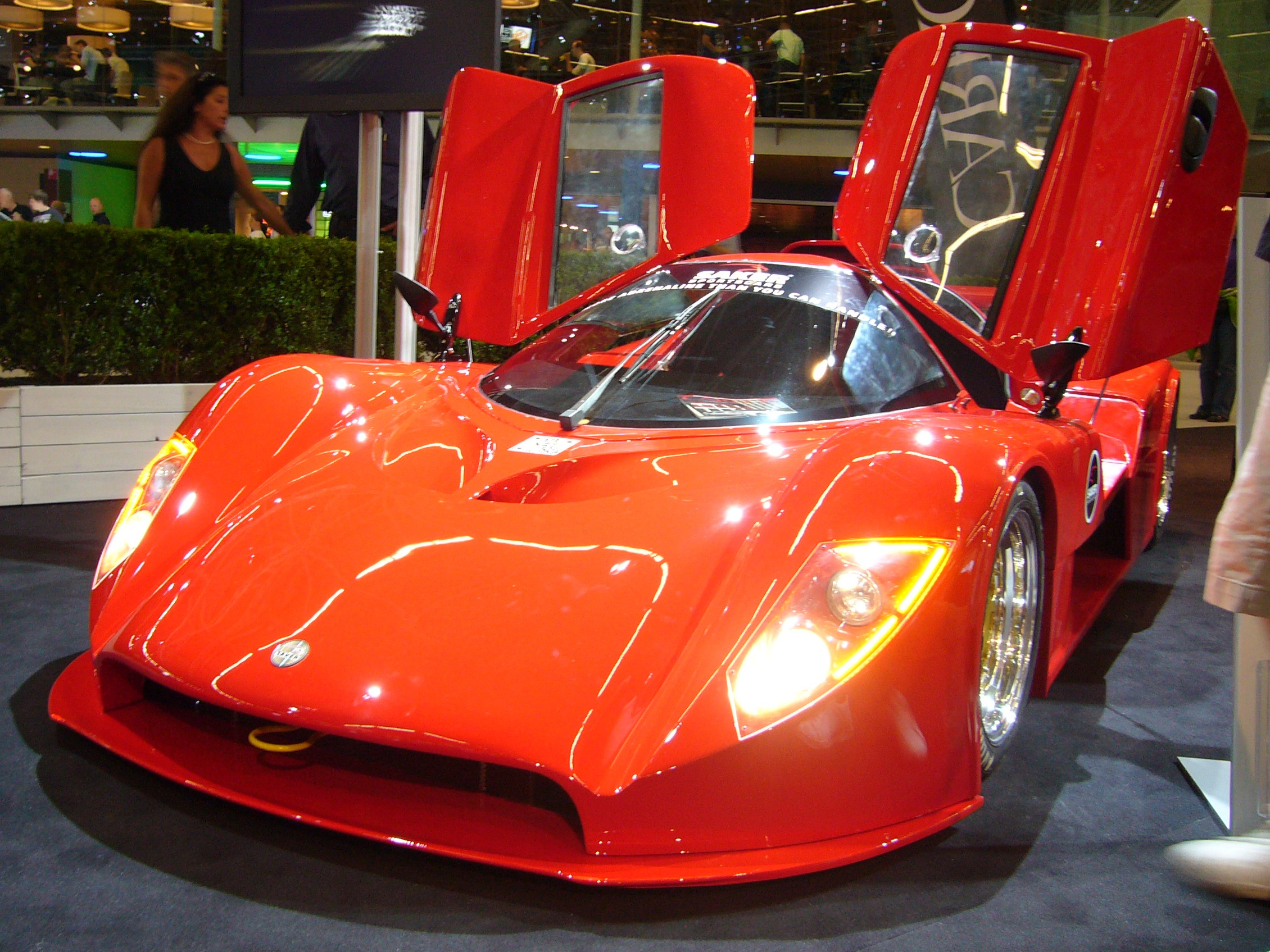 Saker GT at AutoRAI Amsterdam 2011